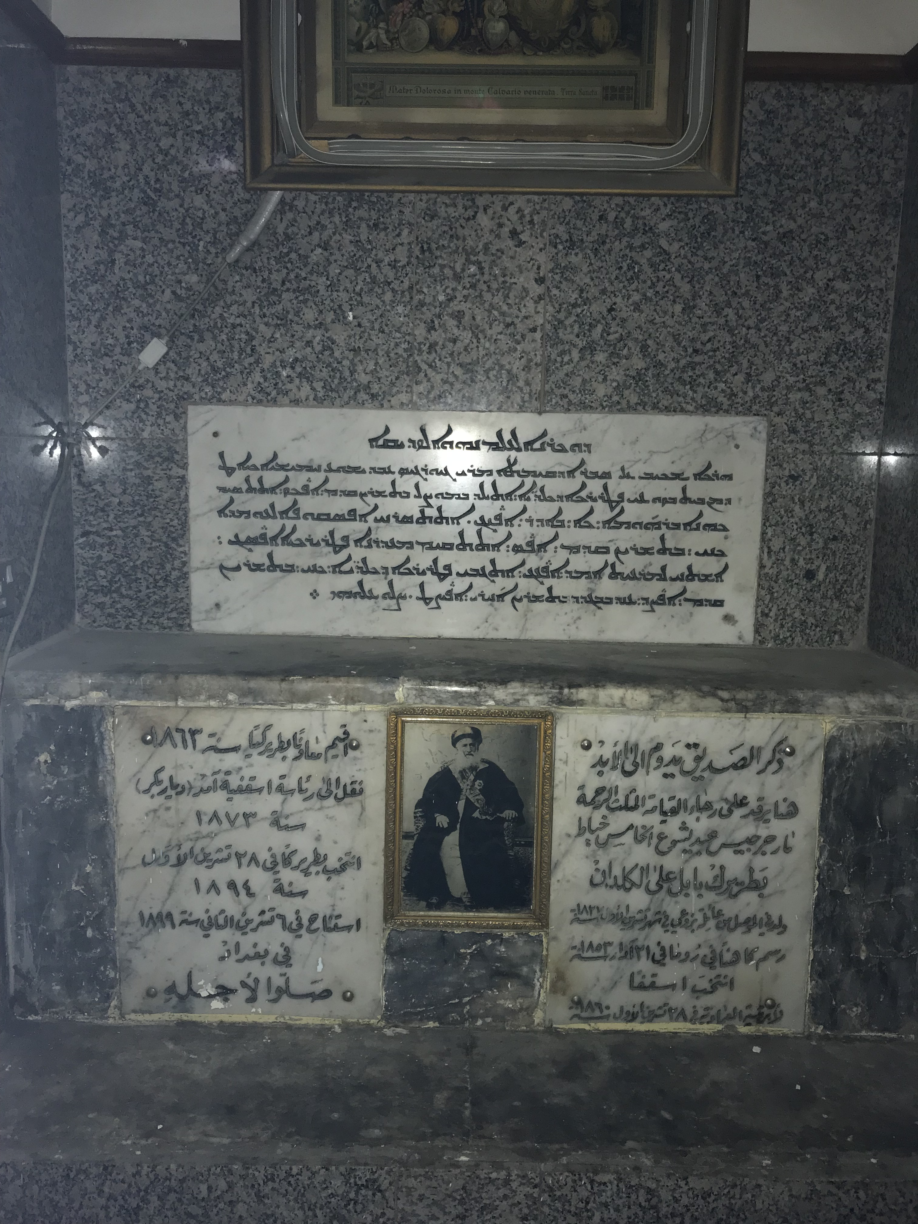 Mar Audishu V Khayyath grave at a Baghdad Chaldean church, buried in 1899. Where he served as thepatriarch of the Chaldean Catholic church in Iraq and the world. His tomb is at the Church of Mary Mother of Sorrows in old Baghdad.